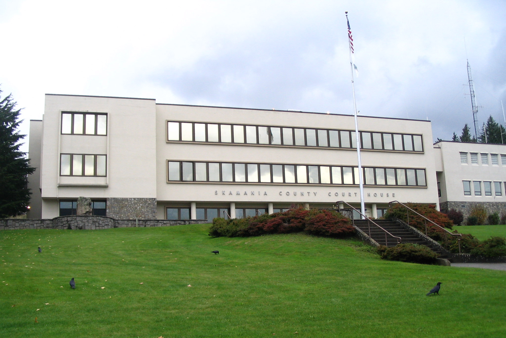 Skamania County Court House, in Skamania, Washington, viewed from streetside curb in front of front lawn. The text reads "SKAMANIA COUNTY COURT HOUSE". There are two flags on the flagpole, a United States flag and a Skamania county flag, not blowing. Weather is overcast, and several crows are on the lawn.